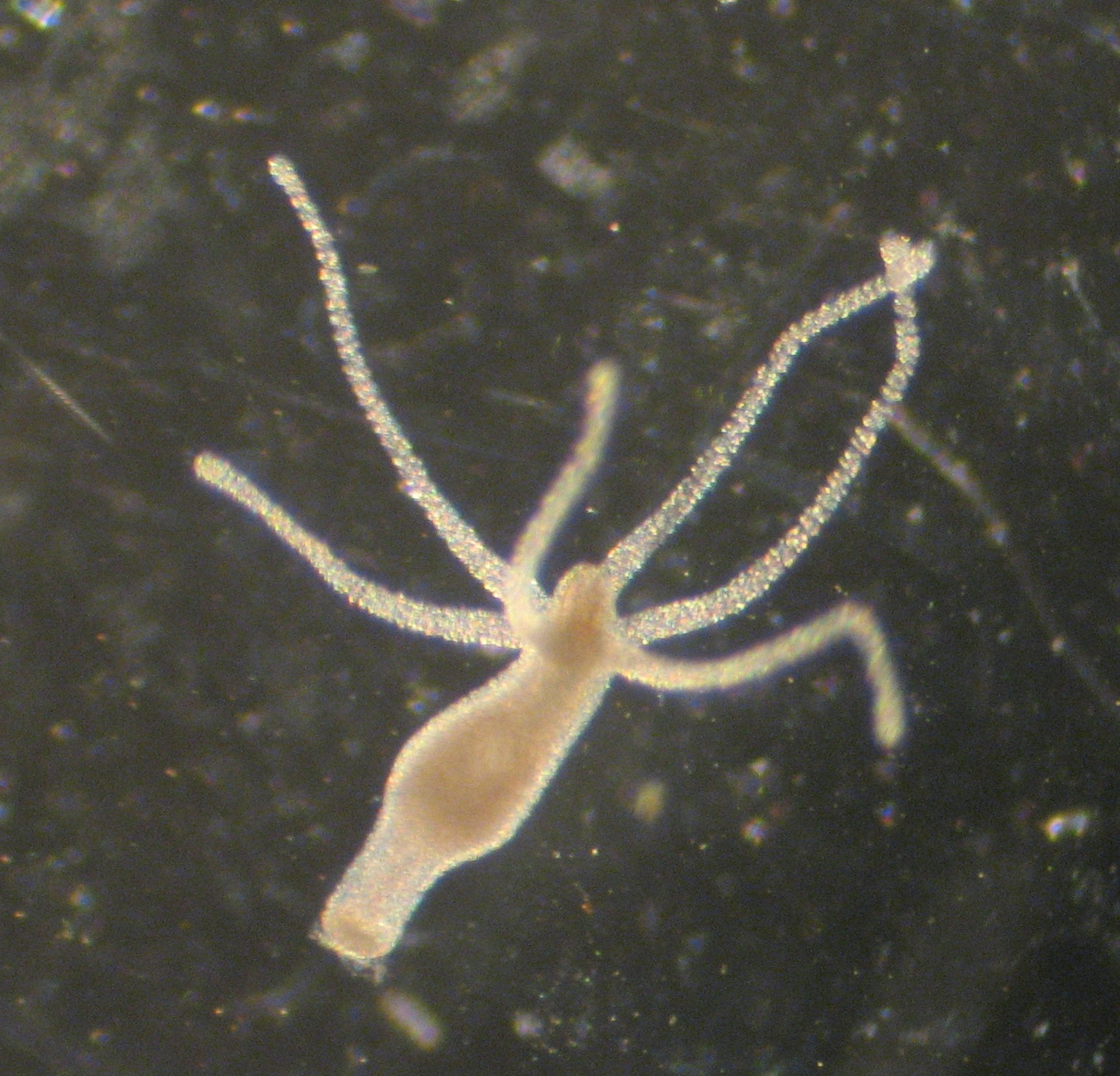 Hydra vulgaris, a hydrozoan cnidarian. Light microscope, 40x